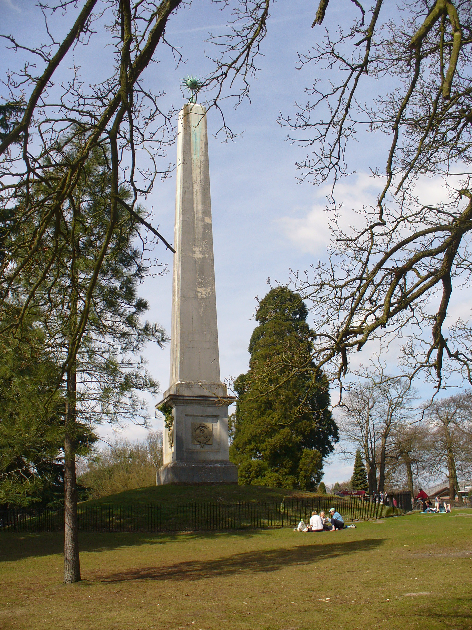 The Obelisk, Windsor Great Park. The obelisk was erected by the English to commemorate "Butcher Cumberland's" exploits in the 1740s. The Duke of Cumberland paid for much of the landscaping of nearby Virginia Water.